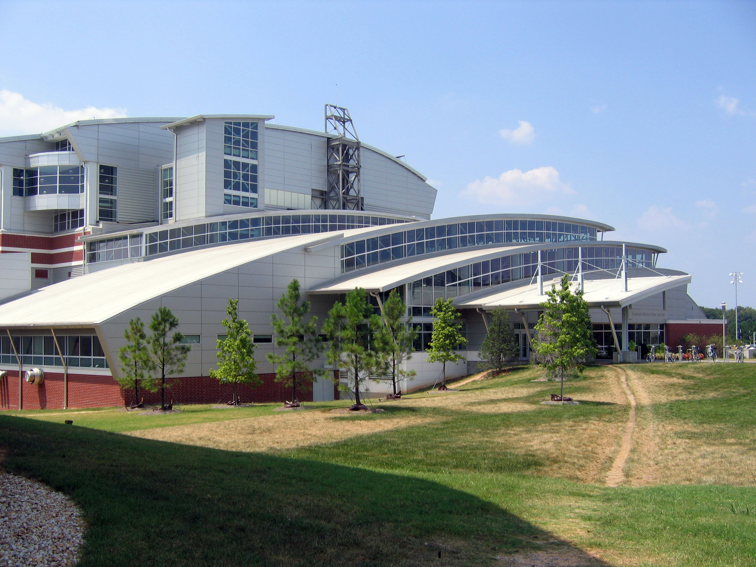 Description: the front of the Georgia Tech Campus Recreation Center on the campus of the Georgia Institute of Technology. Source: I, User:Disavian, took this picture on 2007-08-13.